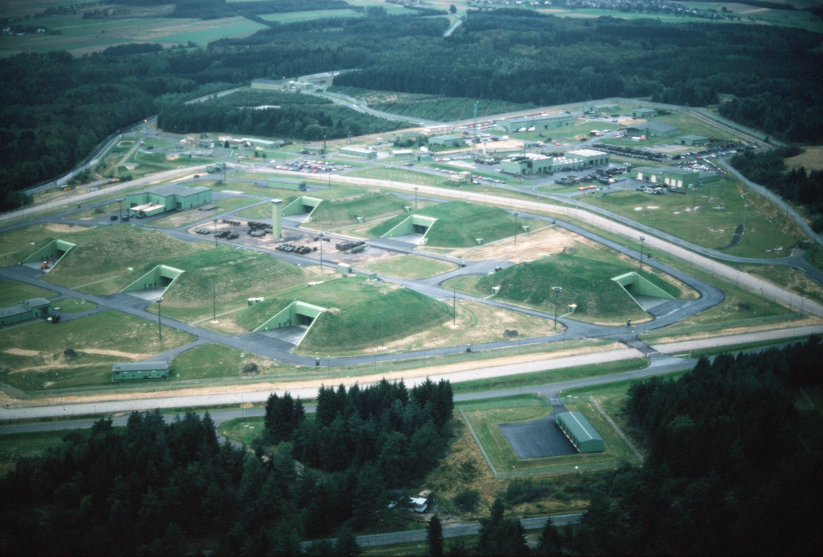 An aerial view of the ground launched cruise missile base at Wuescheim Air Station, home of the 38th Tactical Missile Wing.